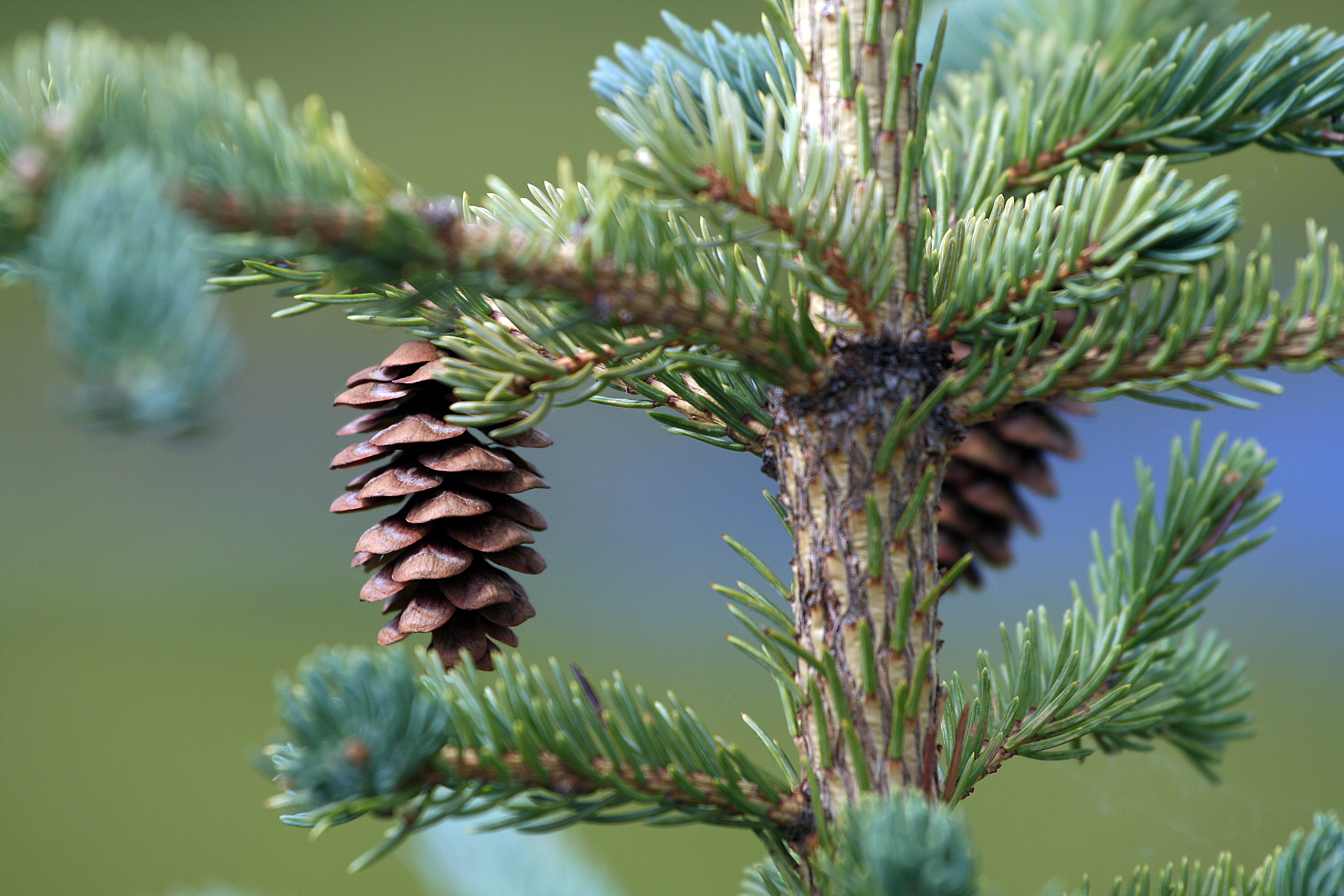 Picea glauca foliage and cones, Denali National Park, Alaska.